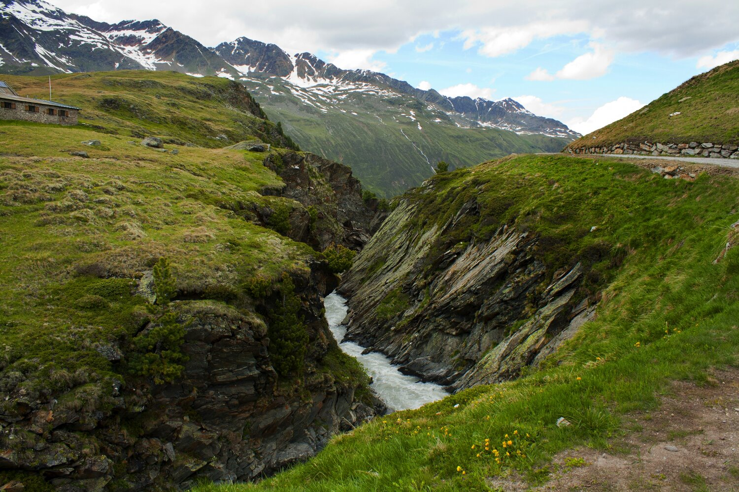 A creek near Obergurgl, Otzal valley.